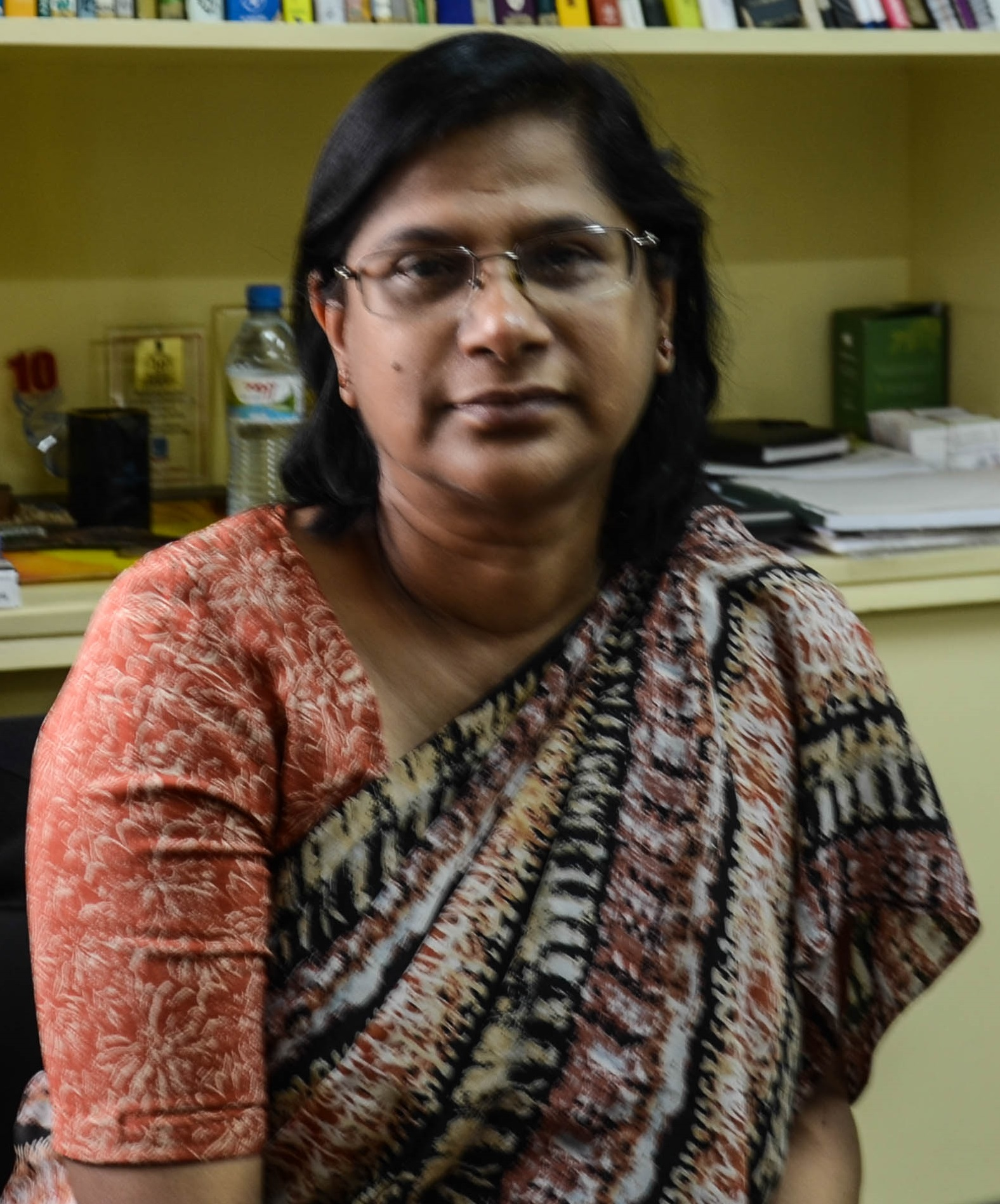 Bangladeshi Scientist Zeba Islam Seraj. This is a cropped version of File:Zeba Islam Seraj.jpg.